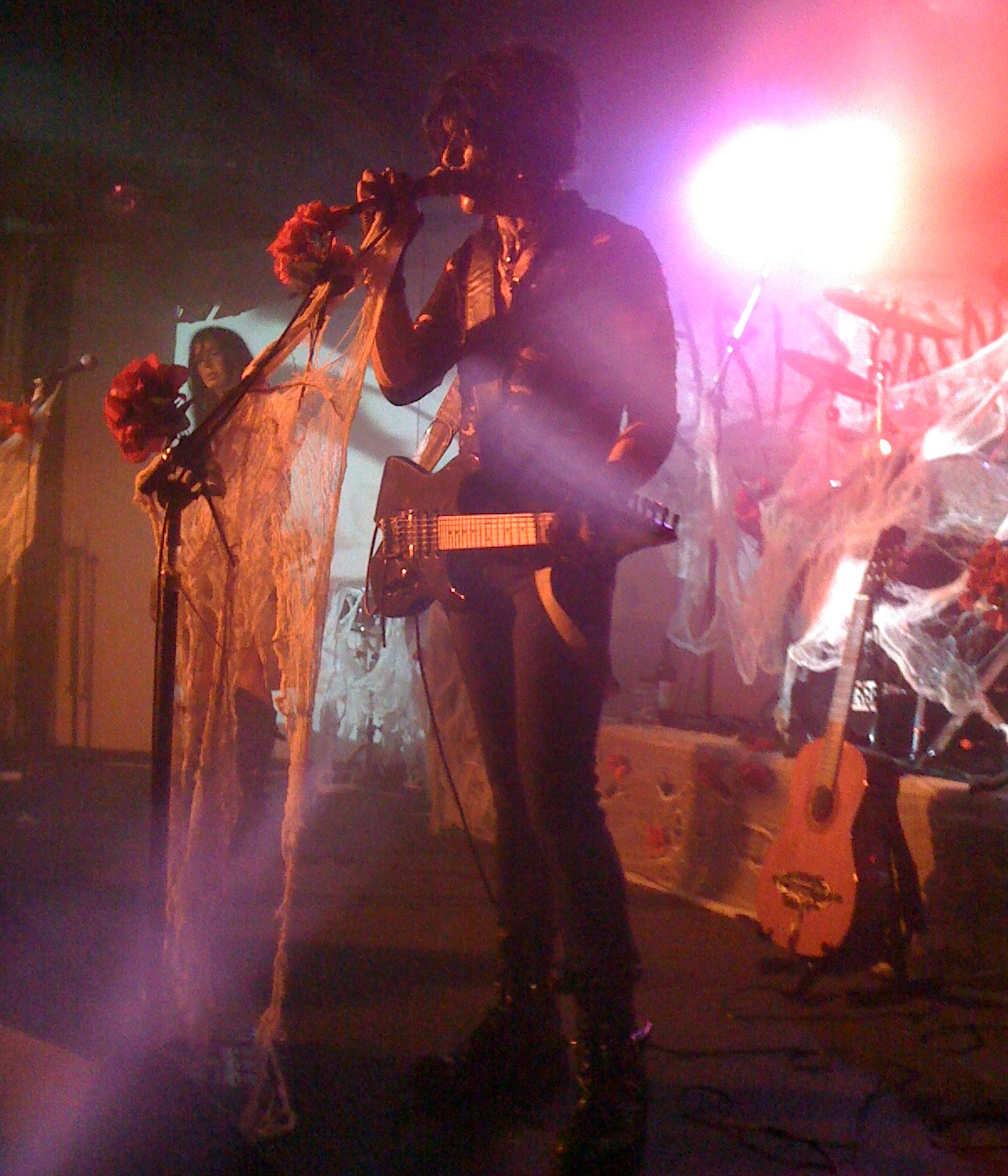 Maitri (left) and Valor Kand (right) of American gothic rock band Christian Death, live on stage at the Corner Hotel, Melbourne, Australia